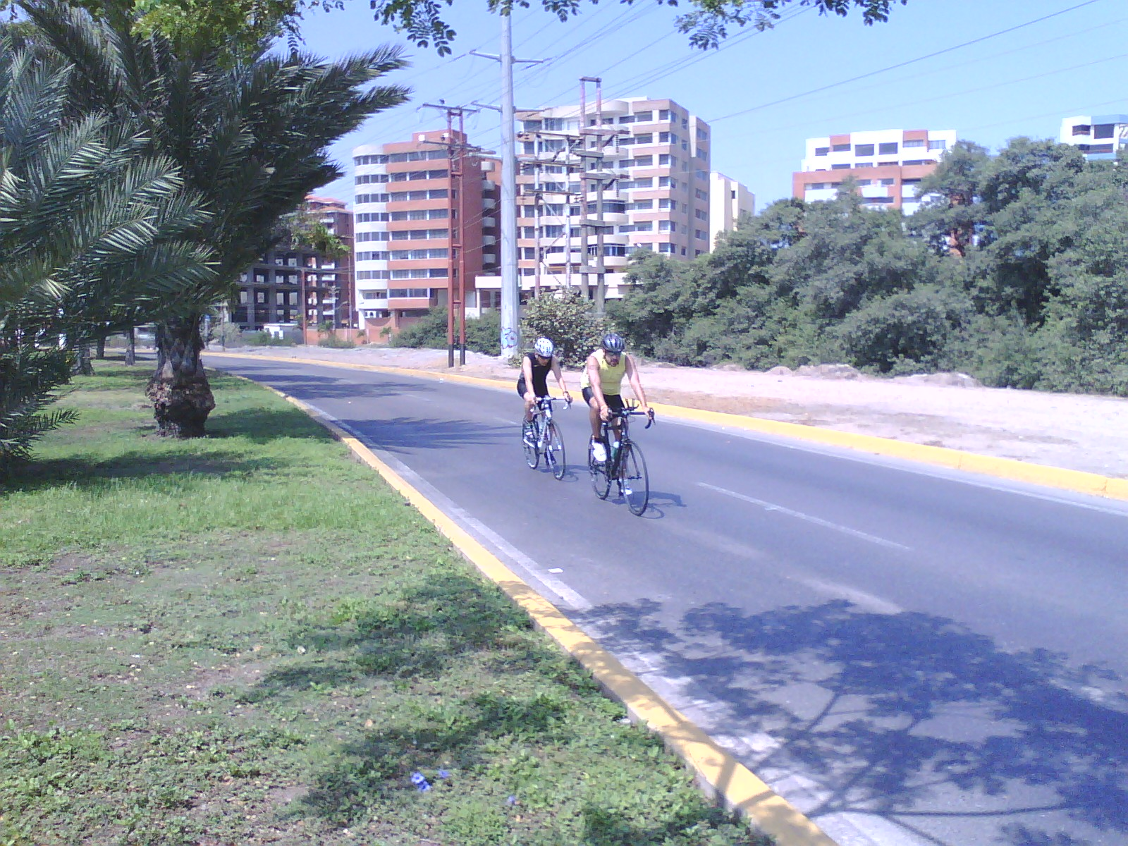 Picture taken on 18-05-2014 with my phone.